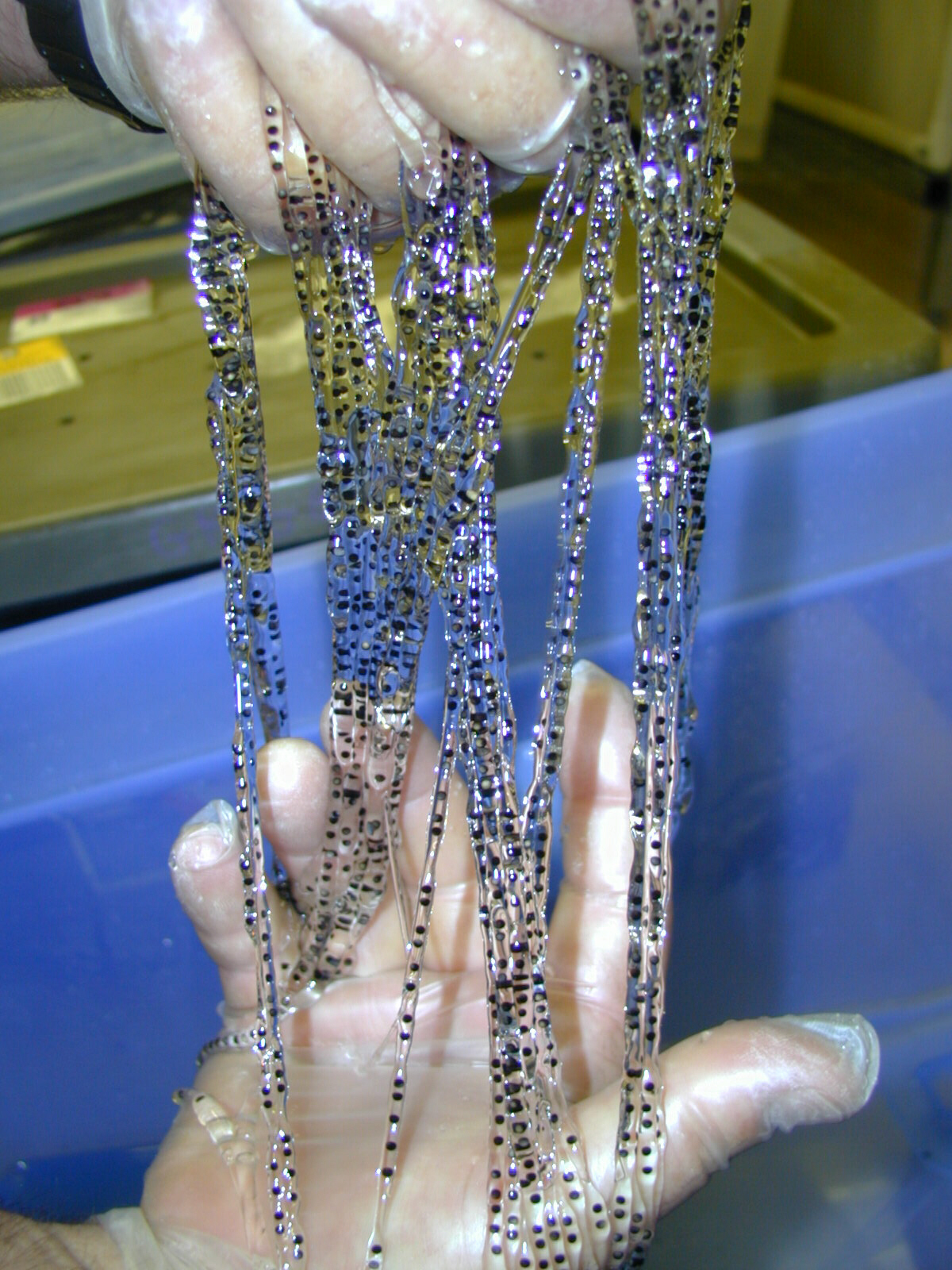 The appearance of cane toad spawn is unique in Australia and consists of long gelatinous strings with double rows of black eggs.